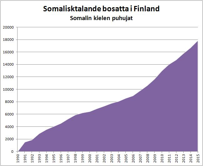 Number of Somali native speakers residing in Finland, 1990-2015.